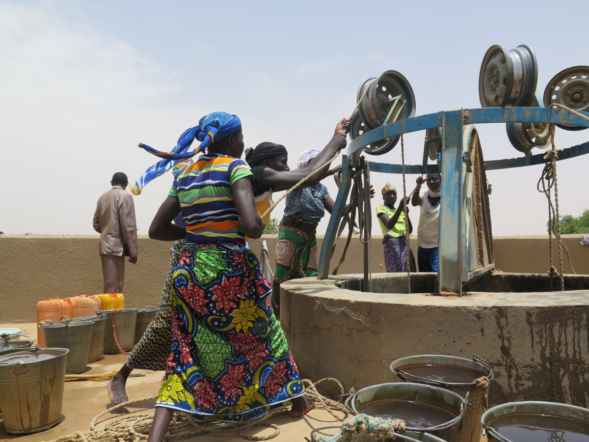 As part of it's local development practice area, UNCDF's LoCAL programme rehabilitated a well in the Dosso district of Niger.